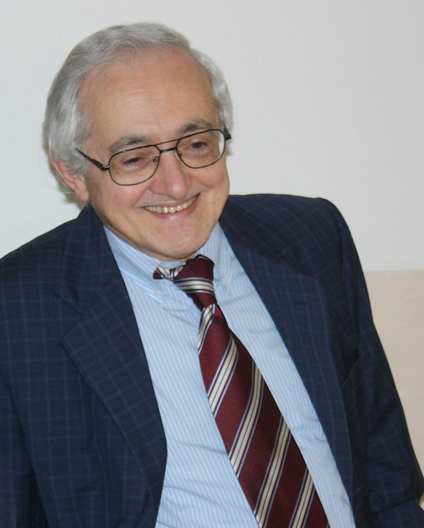 Paolo Marcarini